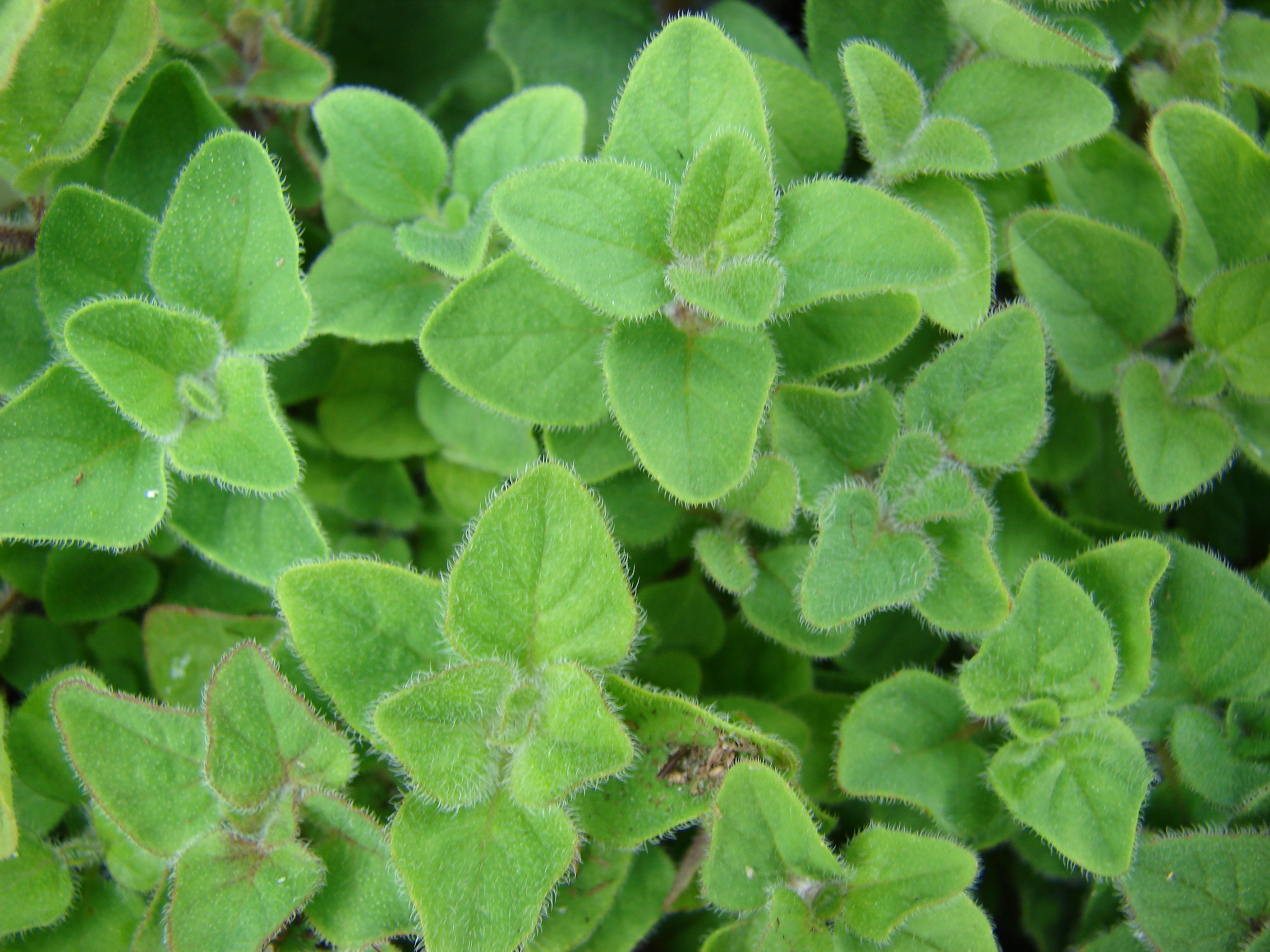 Origanum majorana (leaves). Location: Maui, Kula Ace Hardware and Nursery